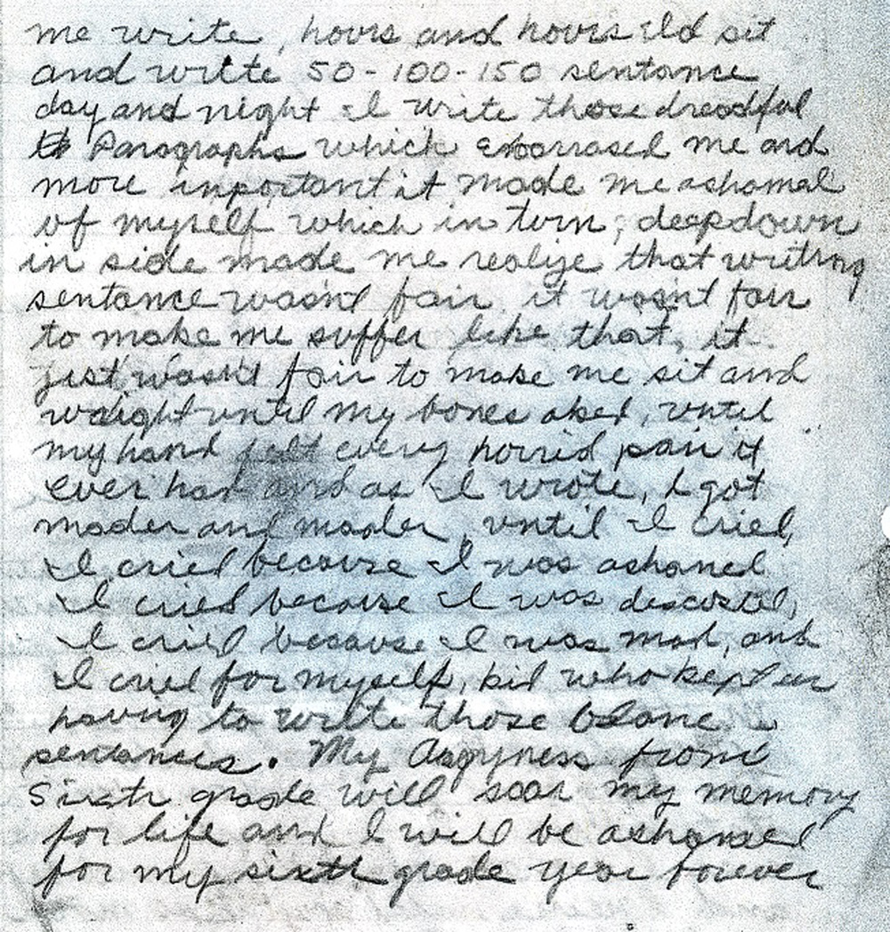 Reverse side of "Mad is the Word" document discovered during the Original Night Stalker investigation.